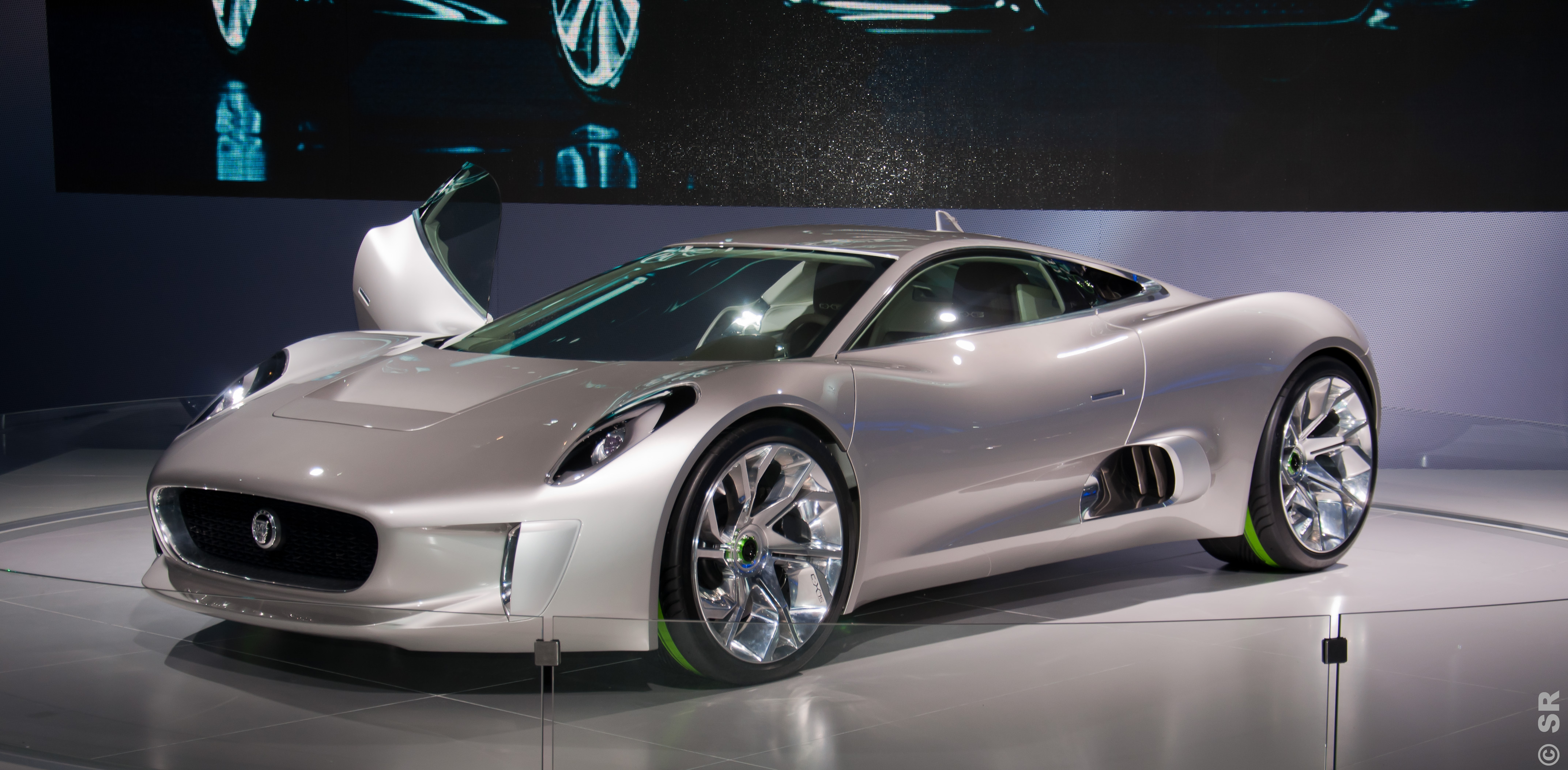 A Jaguar C-X75 concept car at the 2010 Paris Motor Show.